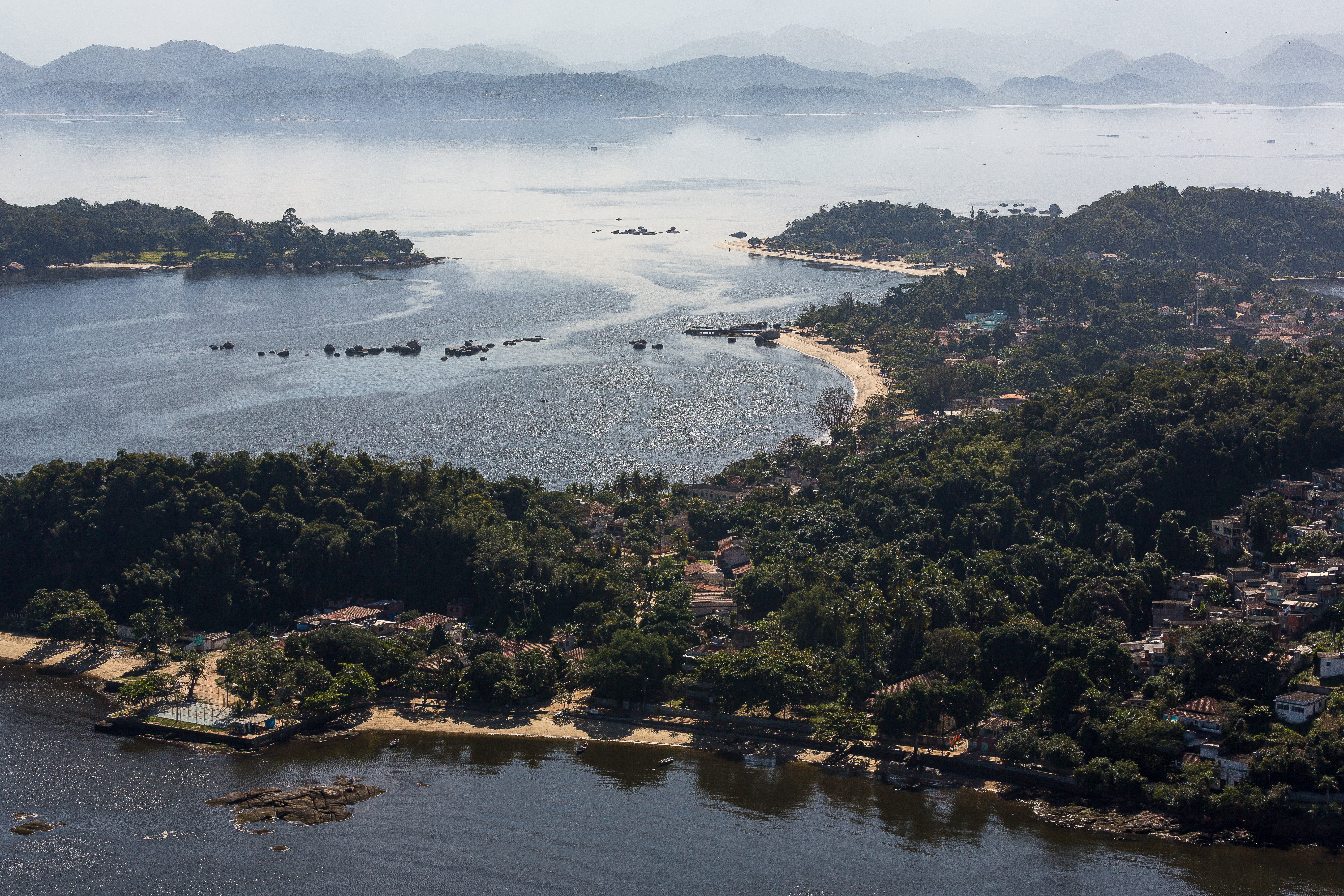 Aerial photographs from the Guanabara bay area - Rio de Janeiro state - Brazil